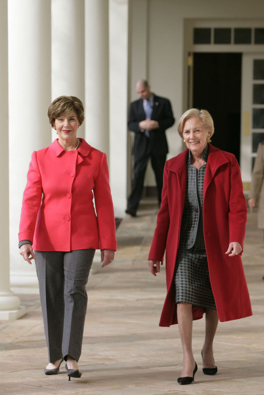 Mrs. Laura Bush walks with Alma Adamkus (Adamkienė), the First Lady of Lithuania, along the colonnade in the Rose Garden during a visit to the White House Monday, Feb. 12, 2007.